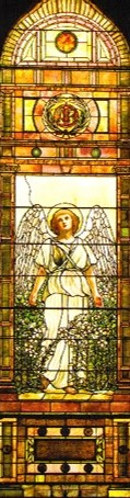 Tiffany Window in First Presbyterian Church, Springfield, Illinois U.S.A.